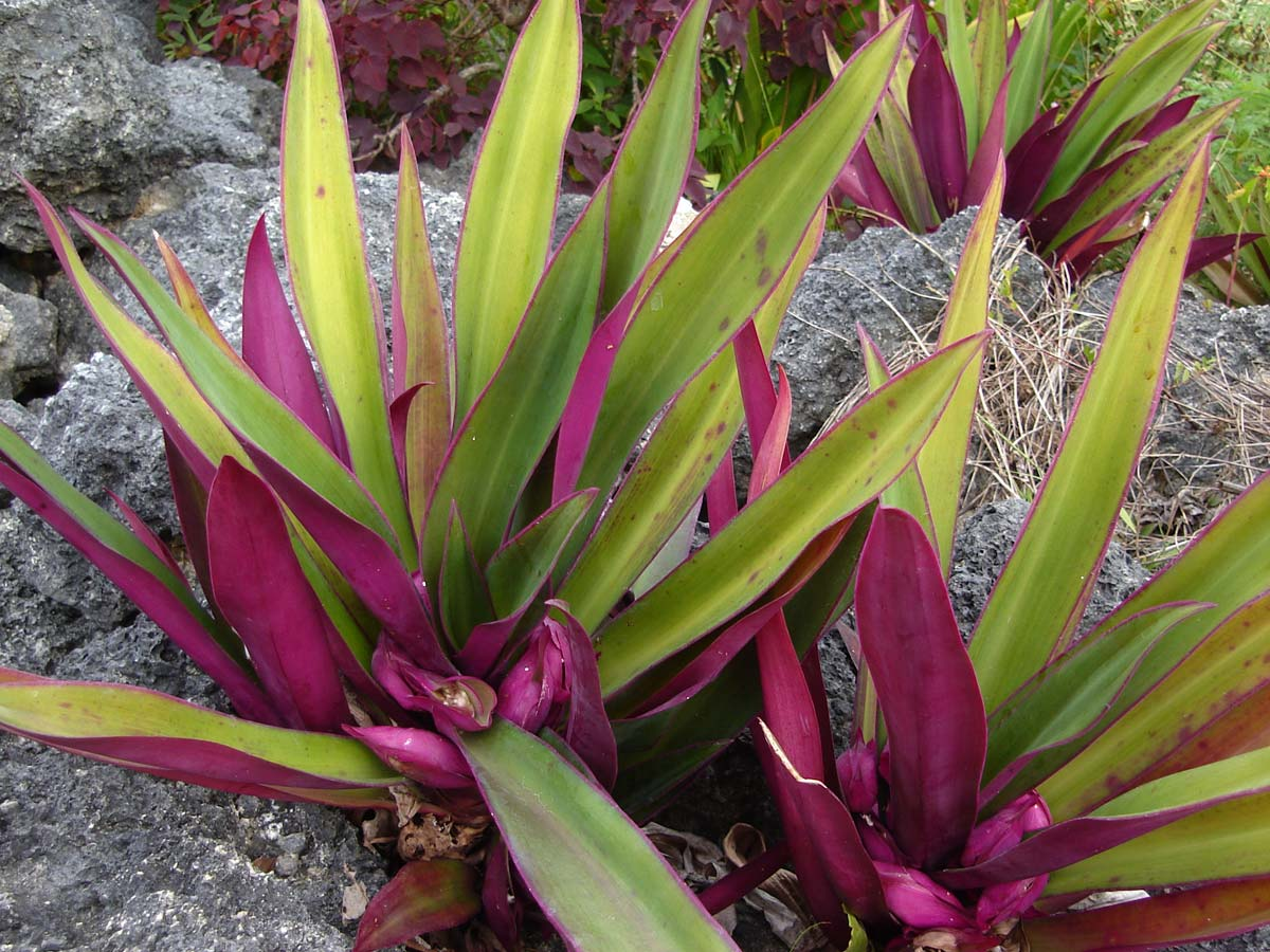 Rhoeo spathacea or Tradescantia spathacea, (fainā kula =red ananas) along a Tongan shore